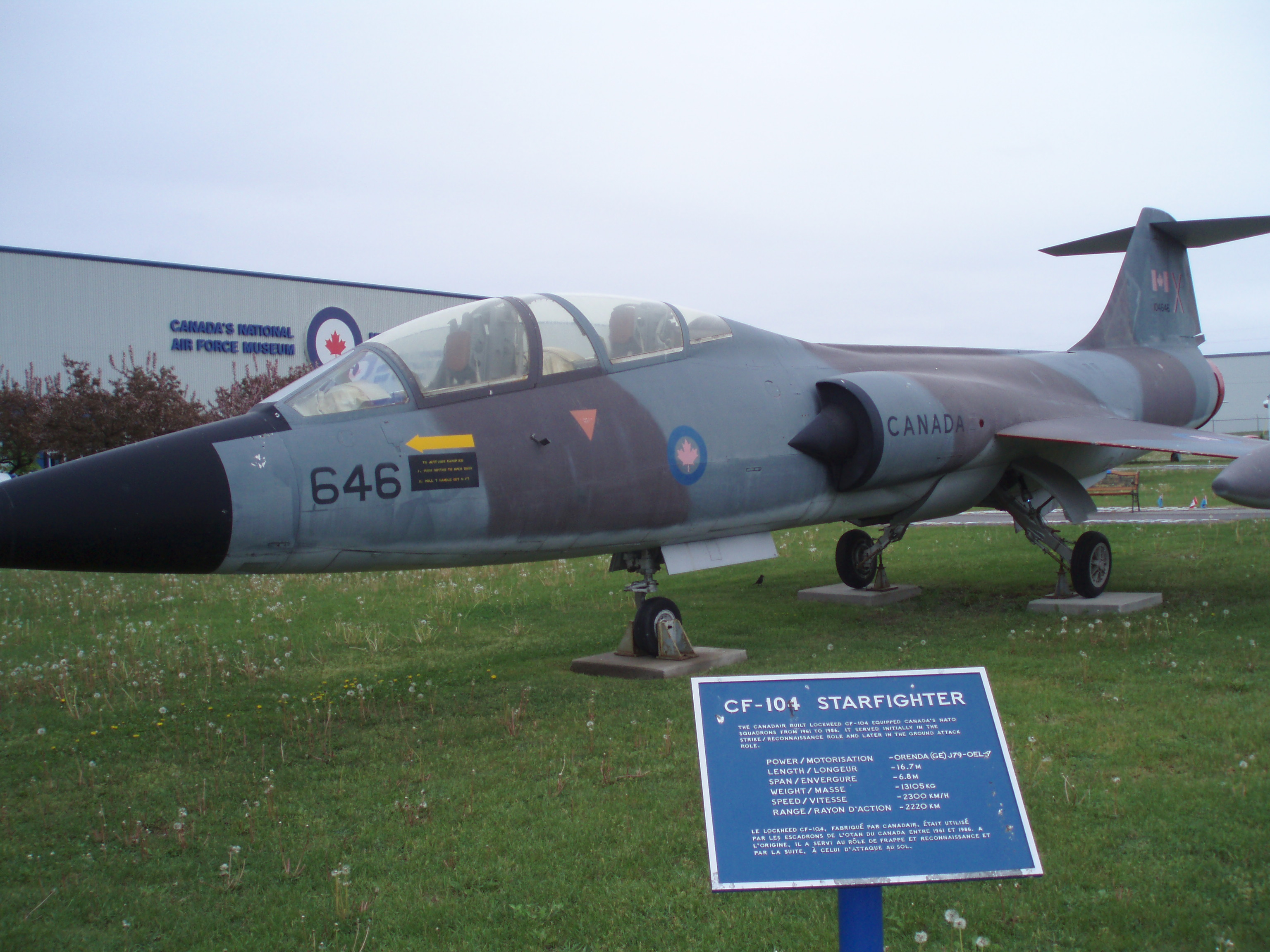 CF-104 Starfighter 104646 @ RCAF Museum, Trenton, Ontario, Canada.